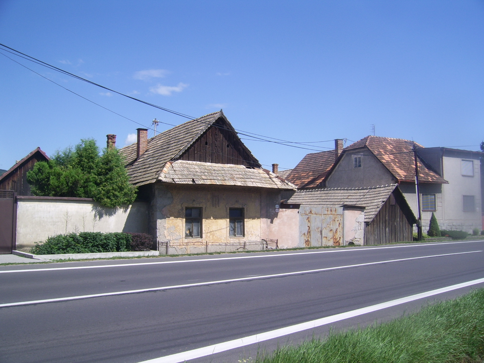 Old slovak house in Dobrá Niva; Slovakia